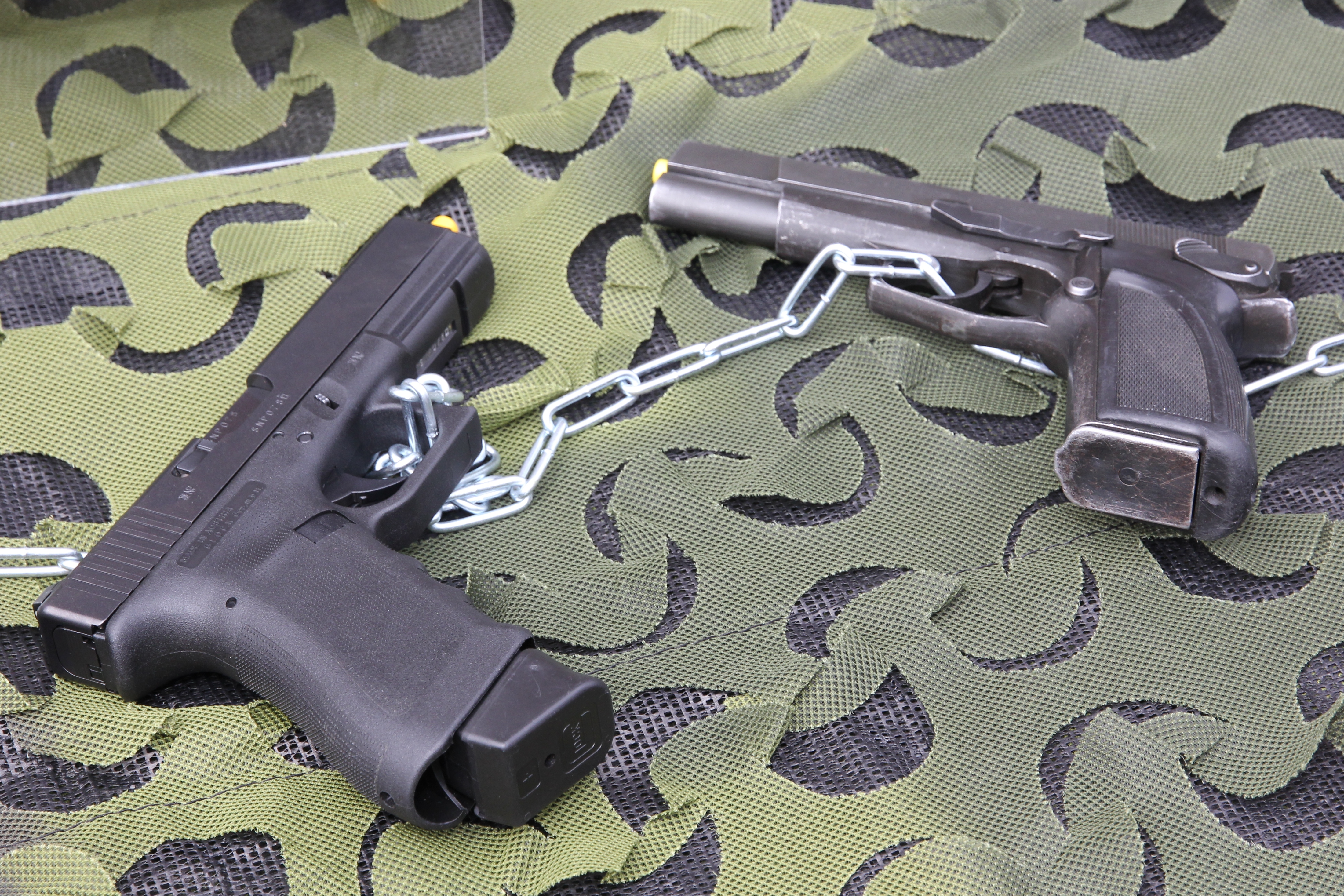 Finnish army service pistols Glock 17 (left, 9 Pist 2008) and Browning FN-BDA (9 Pist 80-91) on display during Finnish Defence Forces 2014 Flag day in Lappeenranta Rakuunanmäki. Notice the extended magazine on Glock 17.